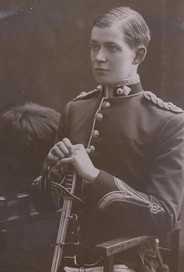 Belgrave Edward Sutton Ninnis, in charge of the Greenland Dogs at the Main Base during the Australasian Antarctic Expedition.